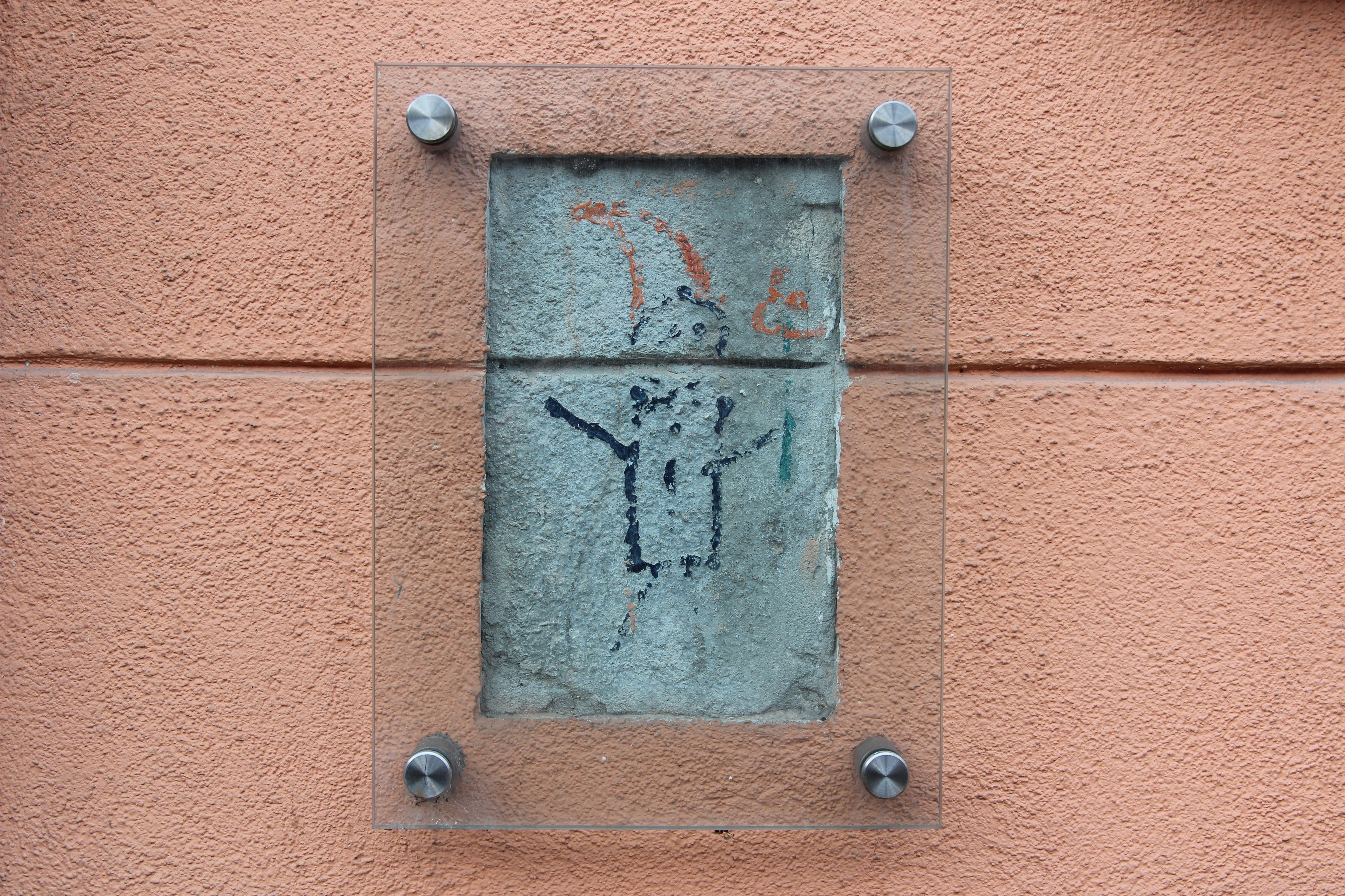 Orange Alternative (Pomarańczowa Alternatywa) Dwarf graffiti on a building wall in Wrocław, Poland